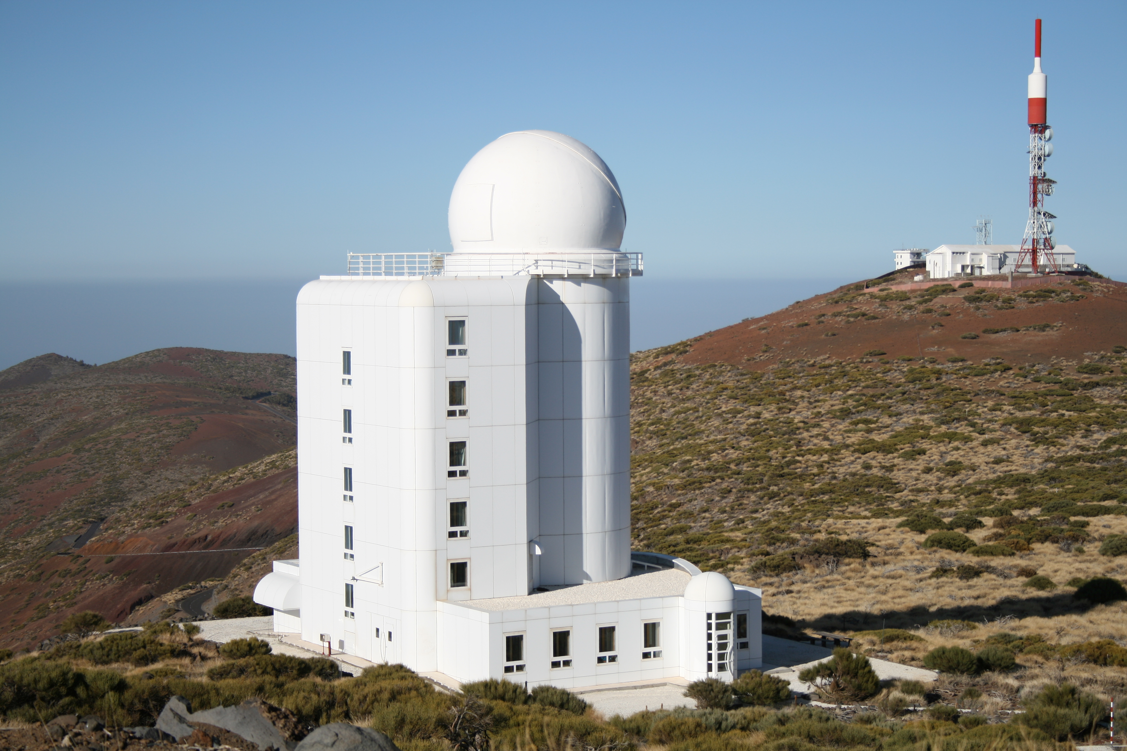 THEMIS solar telescope, Teide Observatory (2370 m), Tenerife, Canary Islands